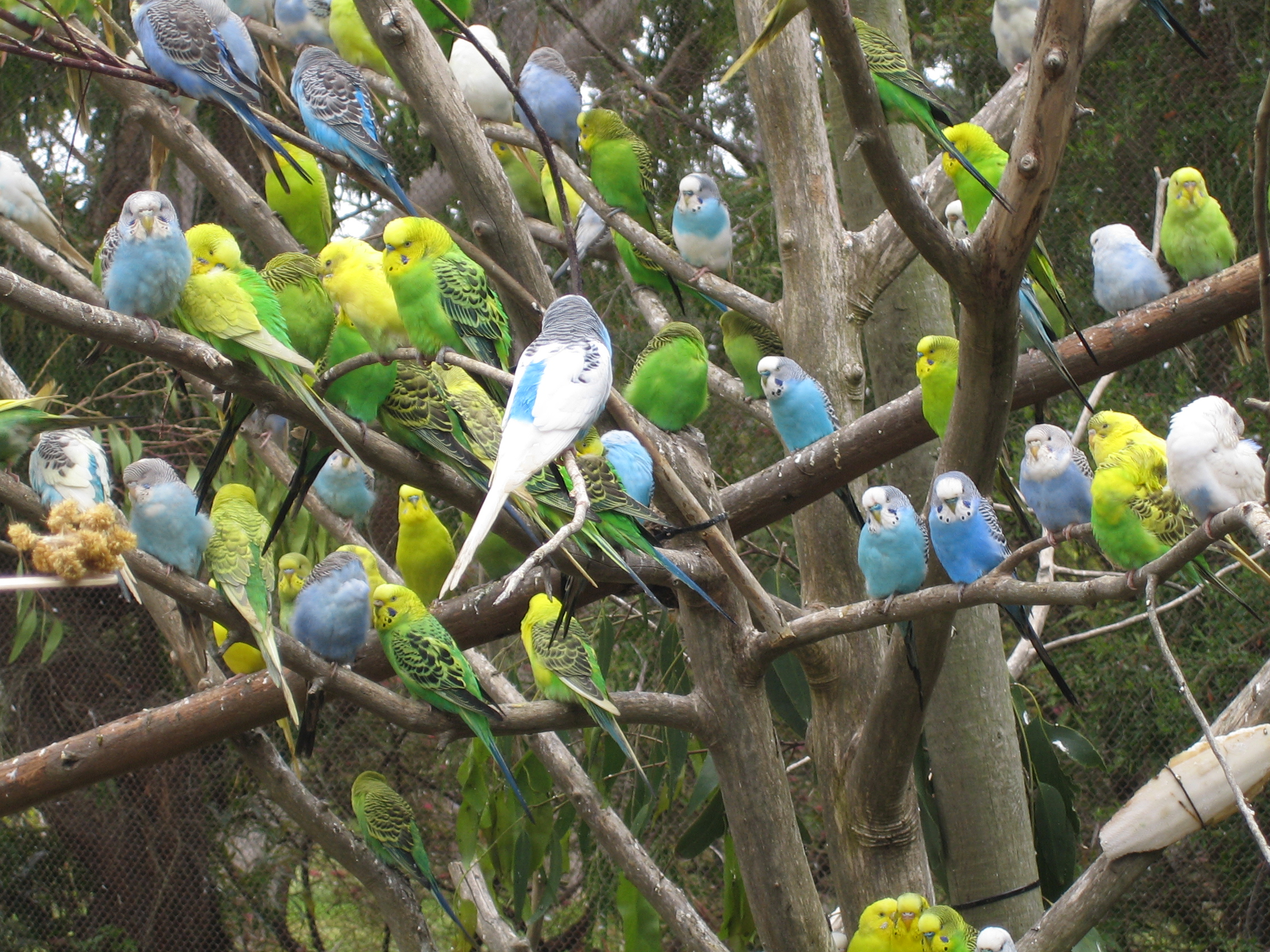 Melopsittacus undulatus flock